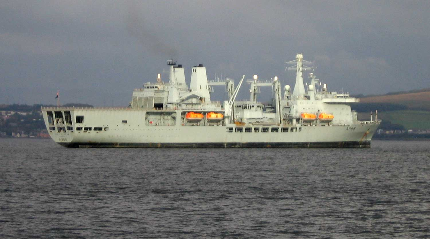 RFA Fort George (A388) waiting at the Tail of the Bank on the Firth of Clyde in Scotland for "Neptune Warrior" "NW 063" multinational training exercise involving NATo and other forces off the west coast of Scotland from 23 October to 2 November 2006. IMO: 8800690 MMSI: 233105000 [UK] Callsign: GCOG Size: 204m x 30m x 8.7m Tonnage: 28821gt, 16061dwt Built: Apr 1993